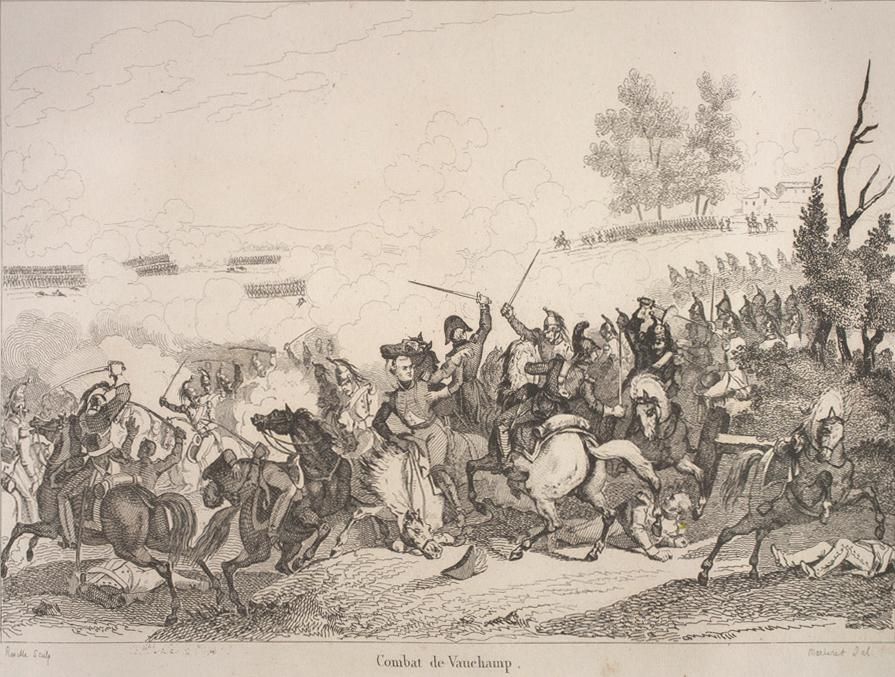 Battle of Vauchamps (14 February 1814). Engraving from book FRANCE MILITAIRE.